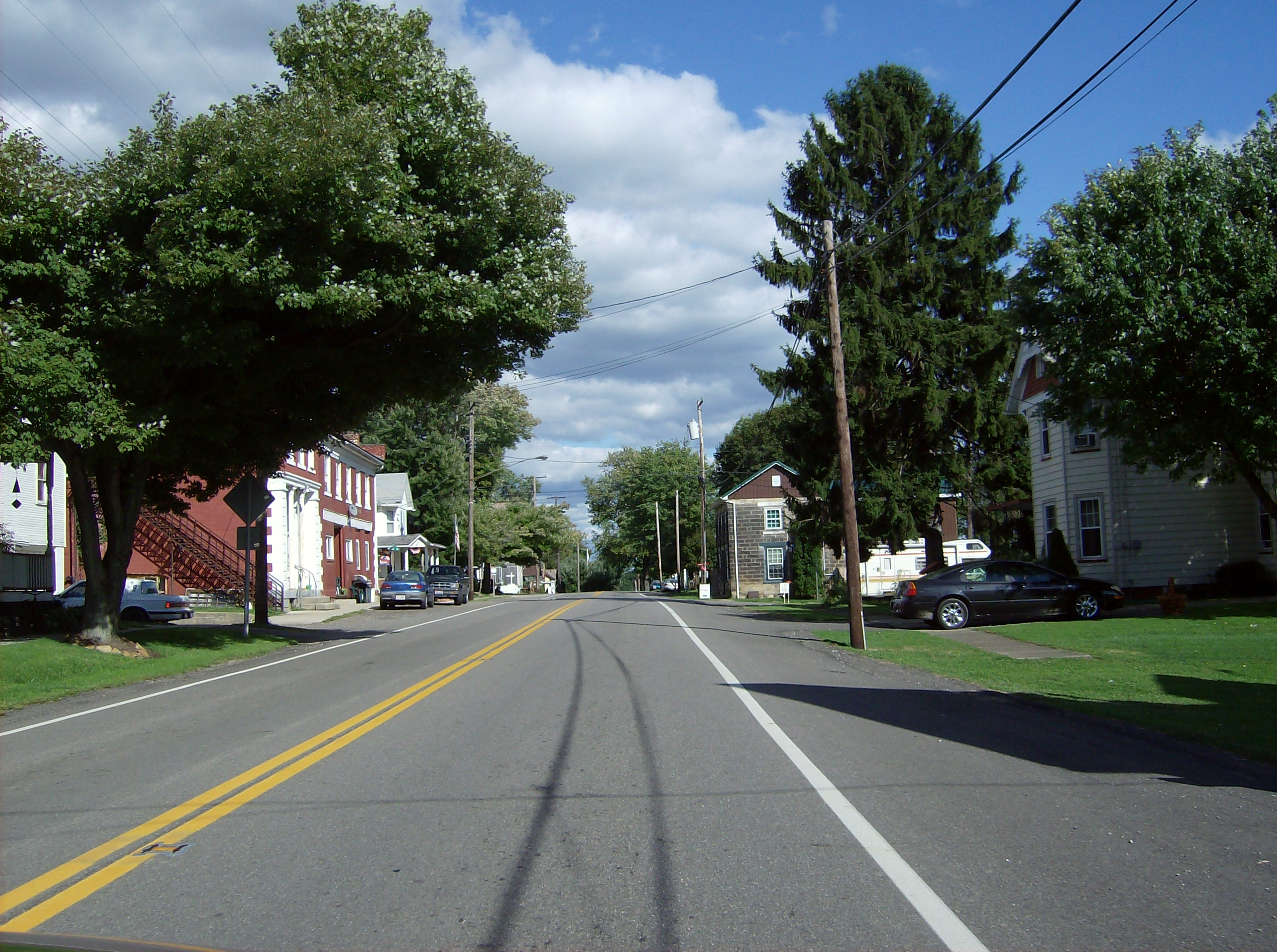 Inside the unincorporated community of Augusta, in the eastern part of Augusta Township, Carroll County, Ohio, United States. Picture taken along eastbound State Route 9, approaching the center of the community.